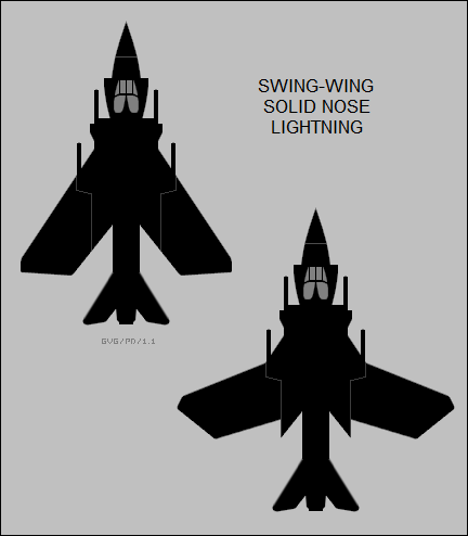 Plan-view silhouettes of a English Electric Lightning based swing wing project